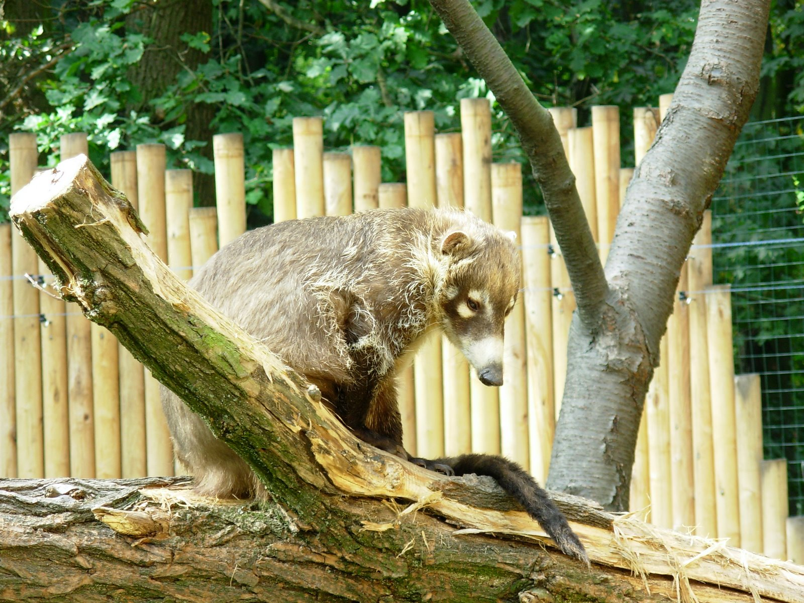 White-Nosed Coati